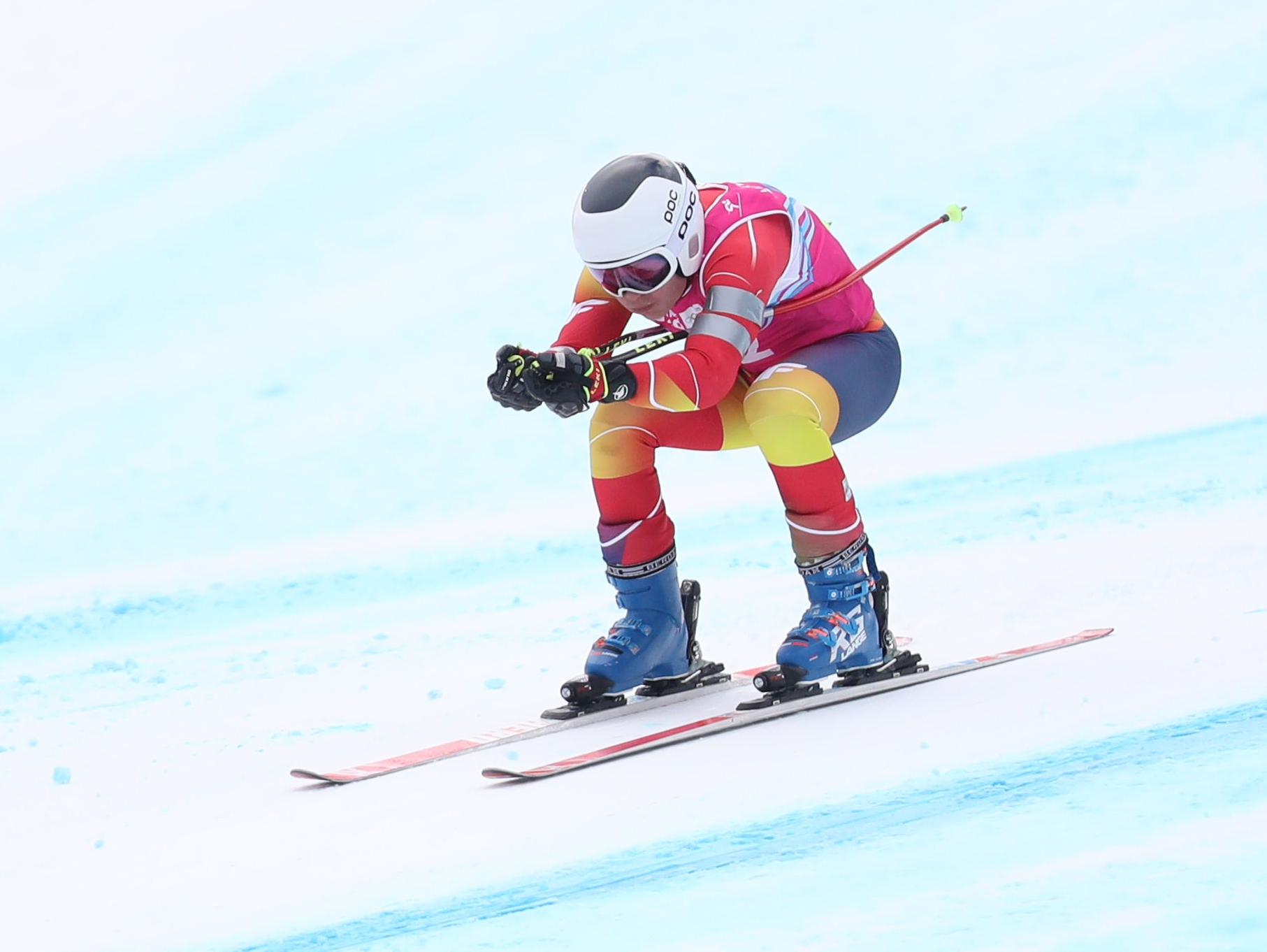 Men's Super G at the 2020 Winter Youth Olympics in Lausanne